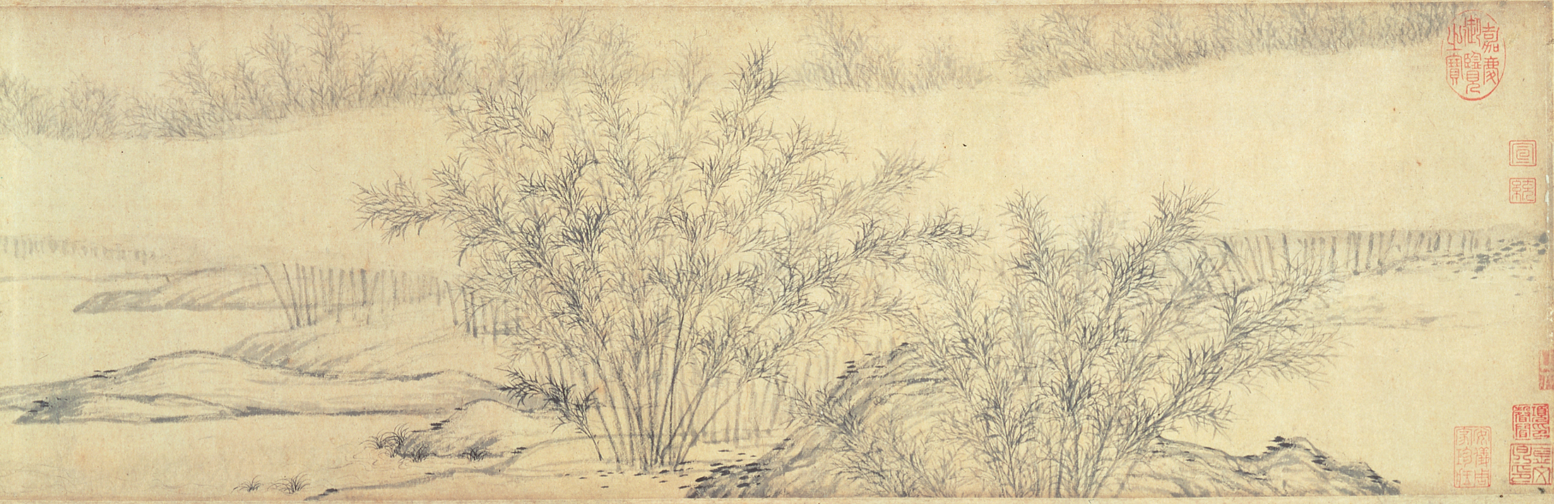 Section of a handscroll